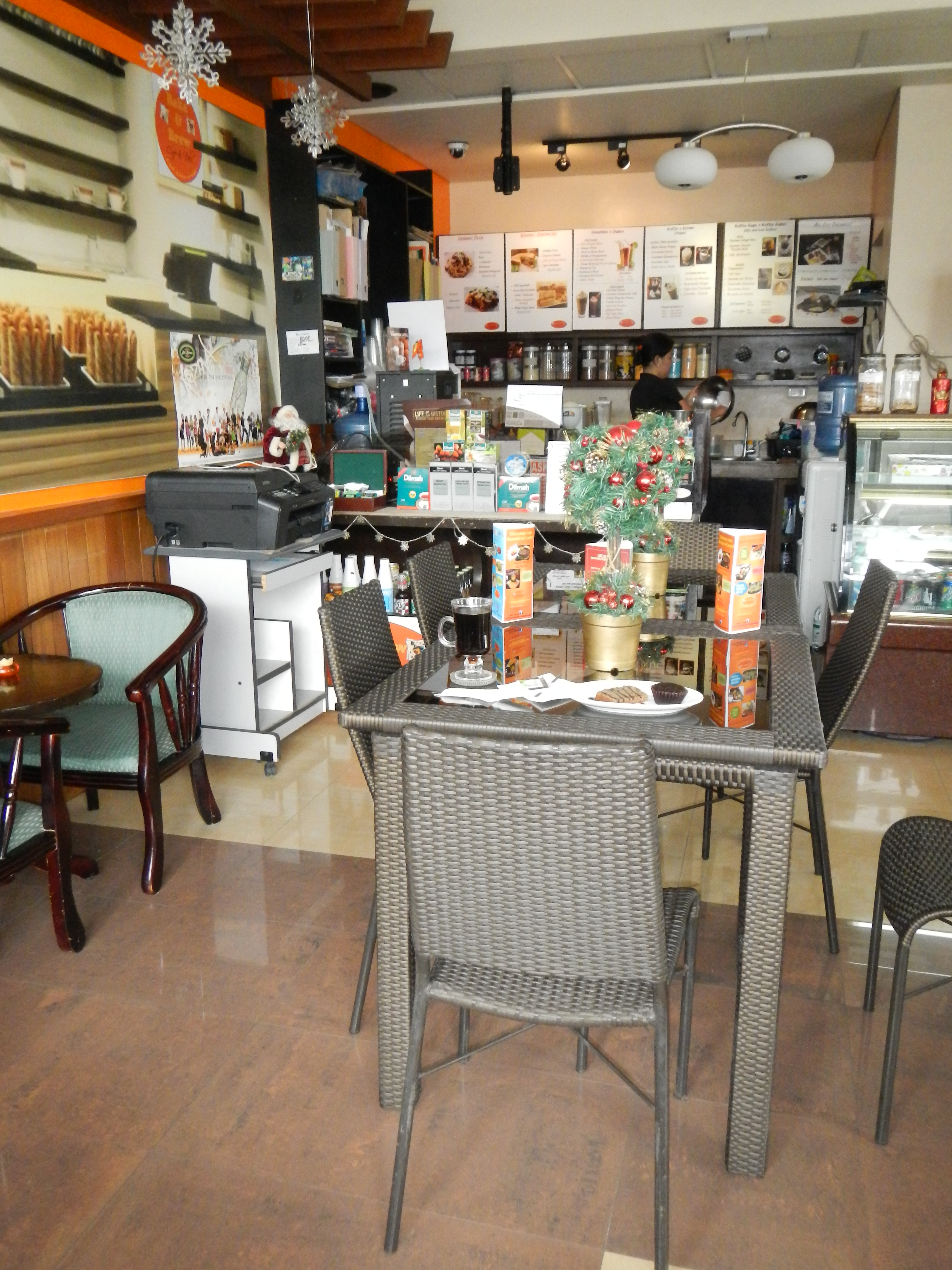 Baliuag, Bulacan[1][2][3]